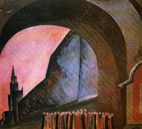 The Novodevichy Scene from the opera Boris Godunov, made by Vladimir Dmitriev for the 1928 production of the composer's 1869 Version in Leningrad.